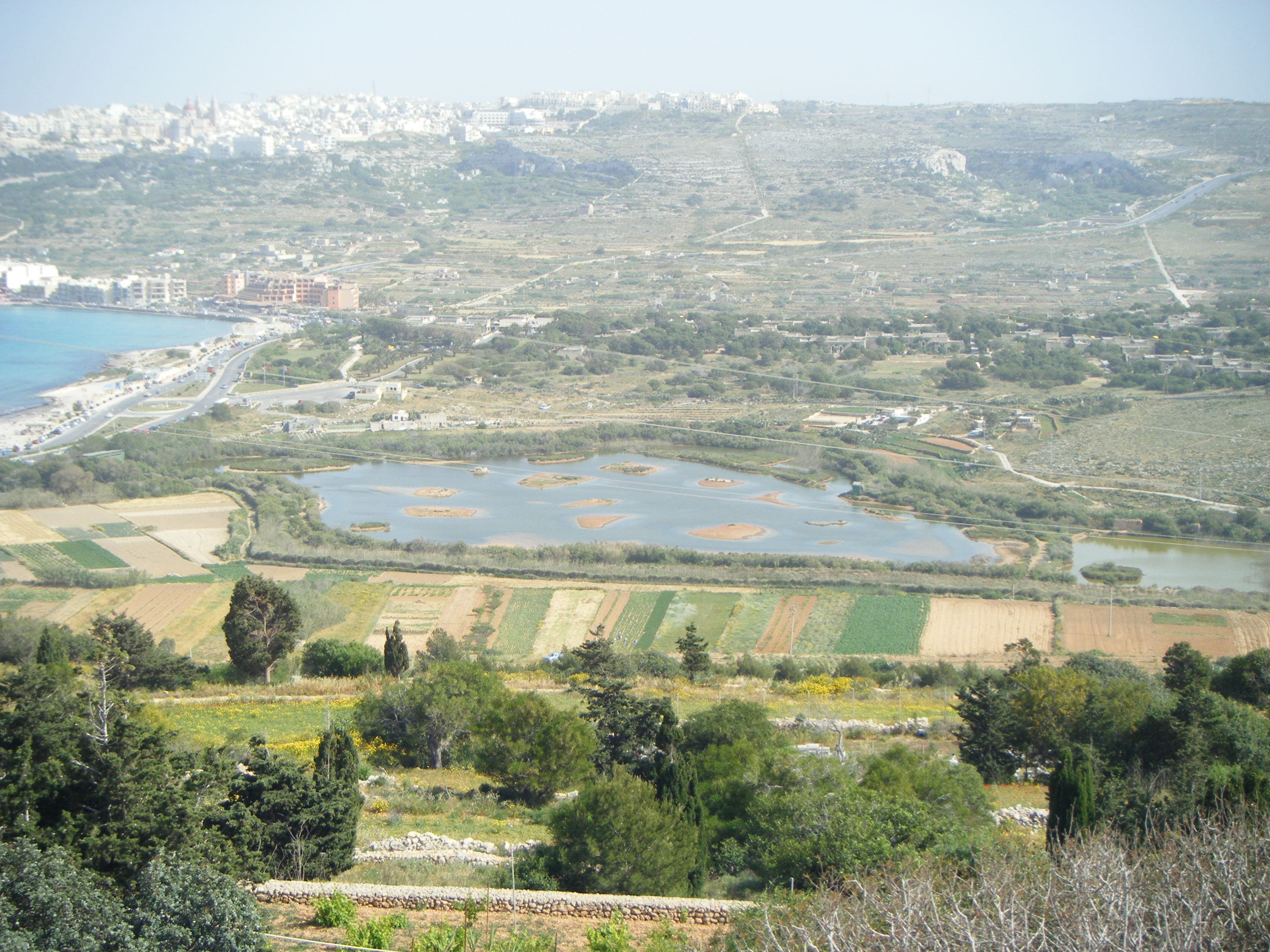 View of Ghadira nature reserve from St. Agatha's Tower (Red Tower) in Mellieha Malta